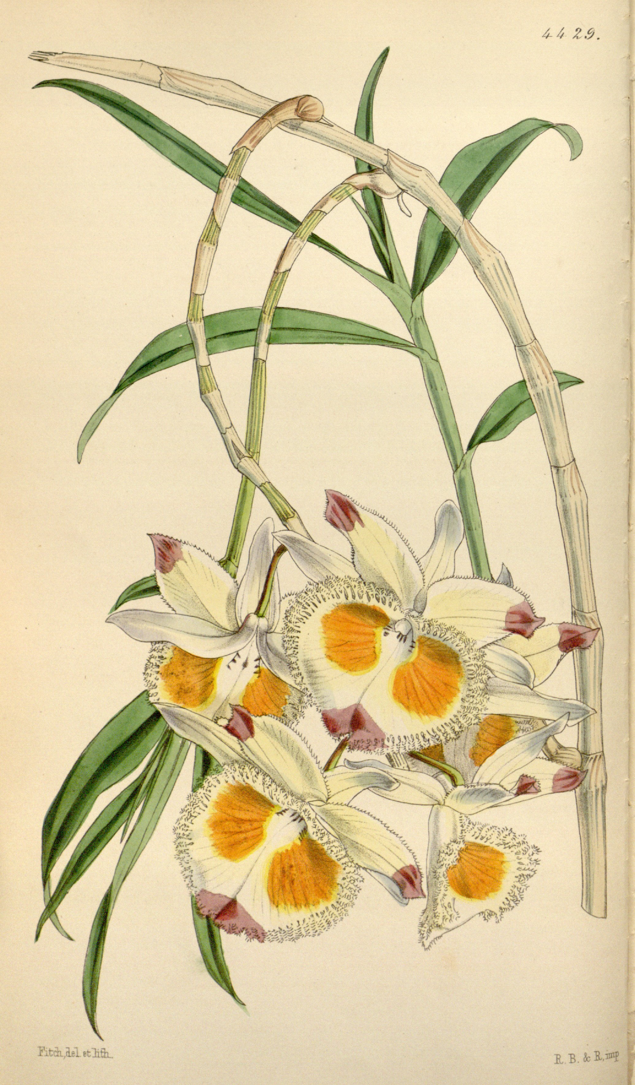 Illustration of Dendrobium devonianum